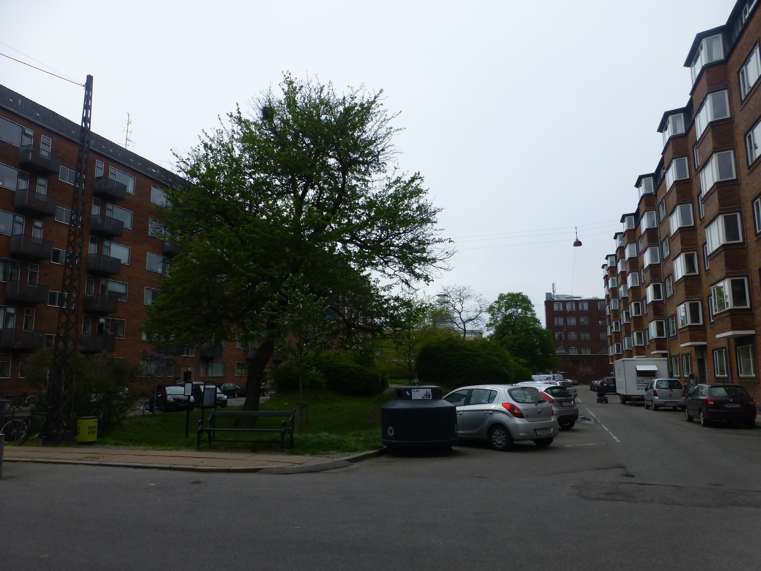 The square Hermen Triers Plads in Nørrebro in Copenhagen.